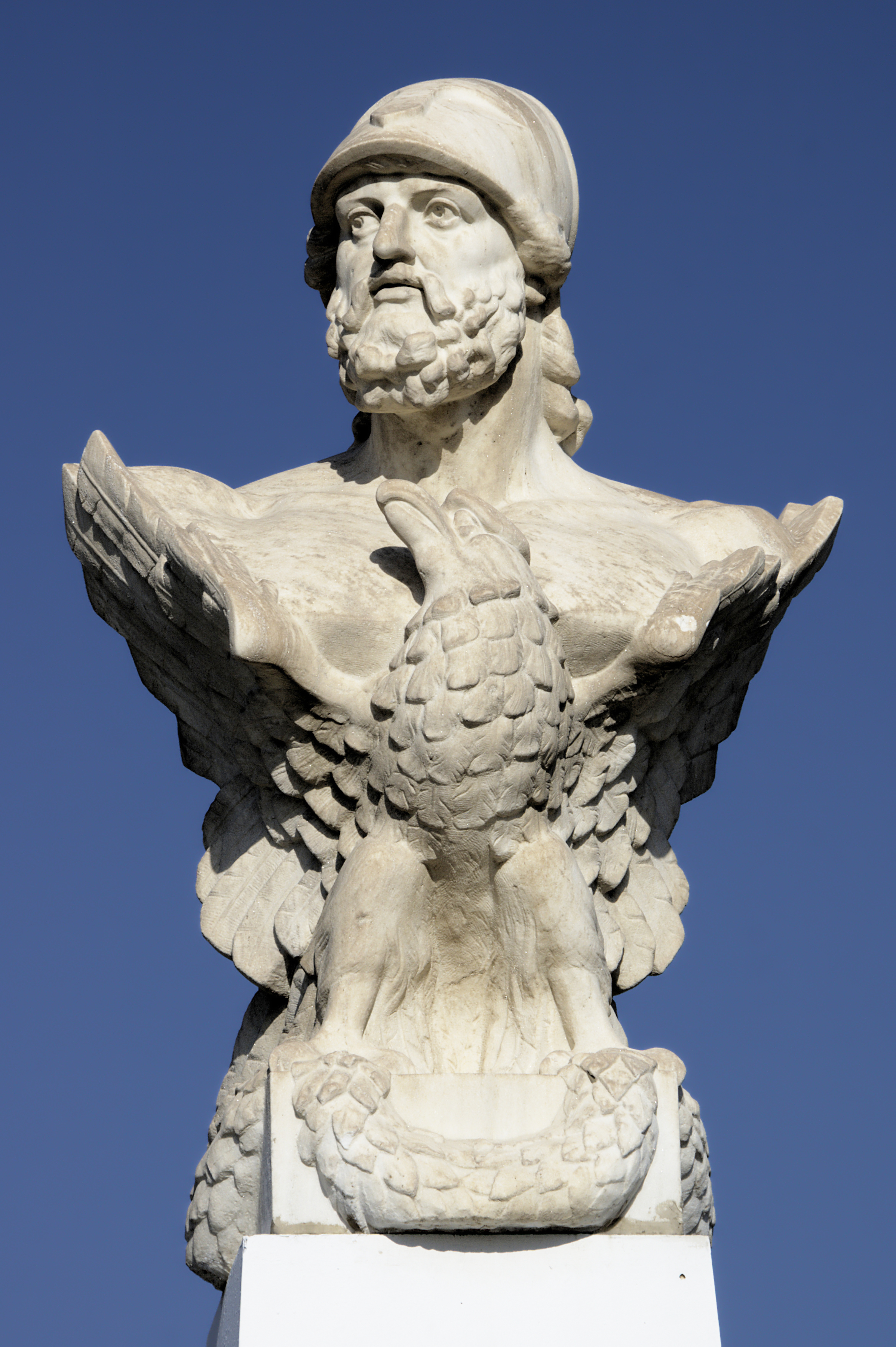 Bust of Cimon (510 - 450 BC) at the beach of Larnaca, Cyprus.